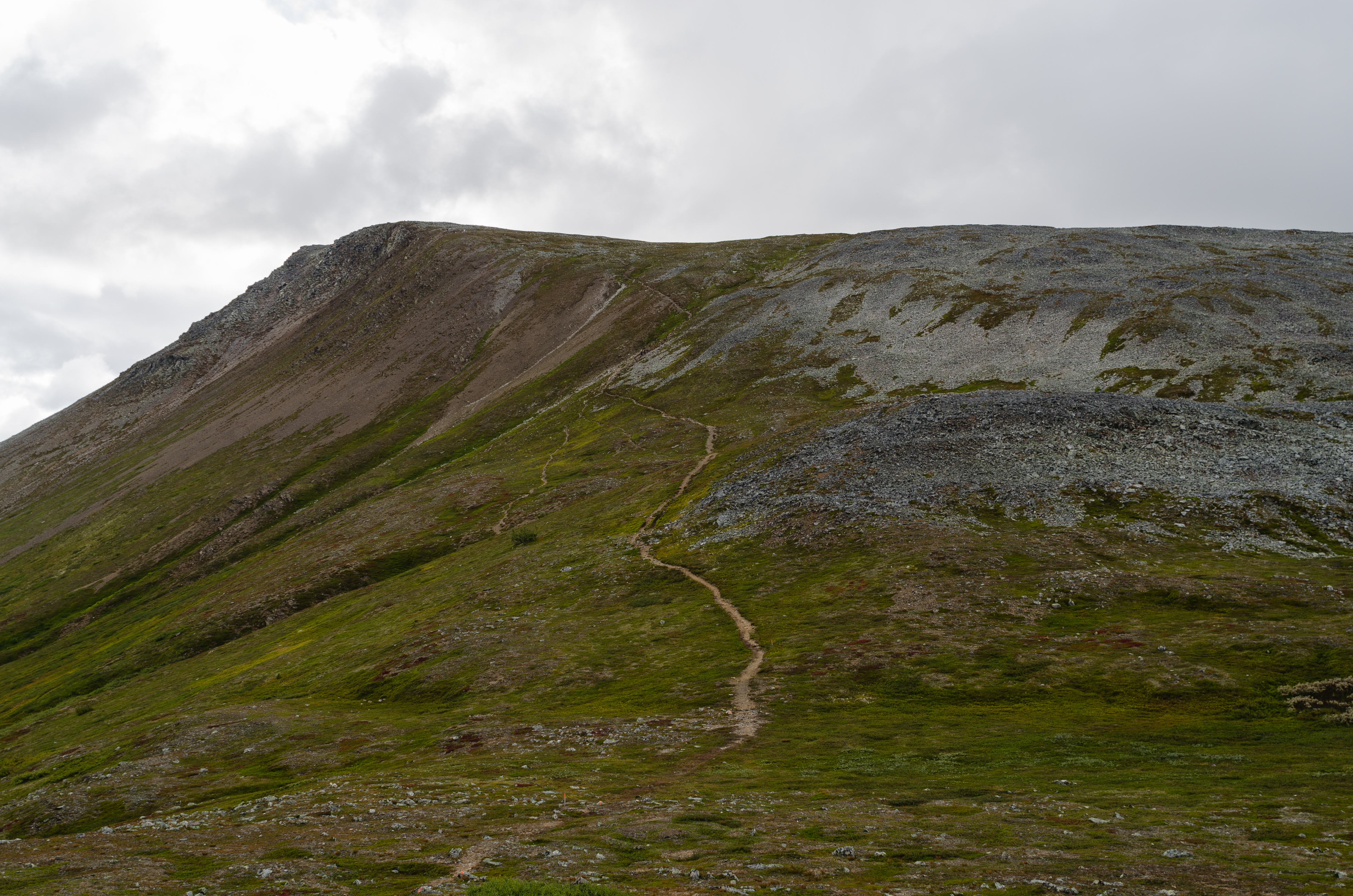 The summit of mount Sonfjället 1,278 m (4,193 ft) above sea level. Sonfjället is a national park situated in Härjedalen, in central Sweden. It was established in 1909, making it one of Europe's oldest national parks